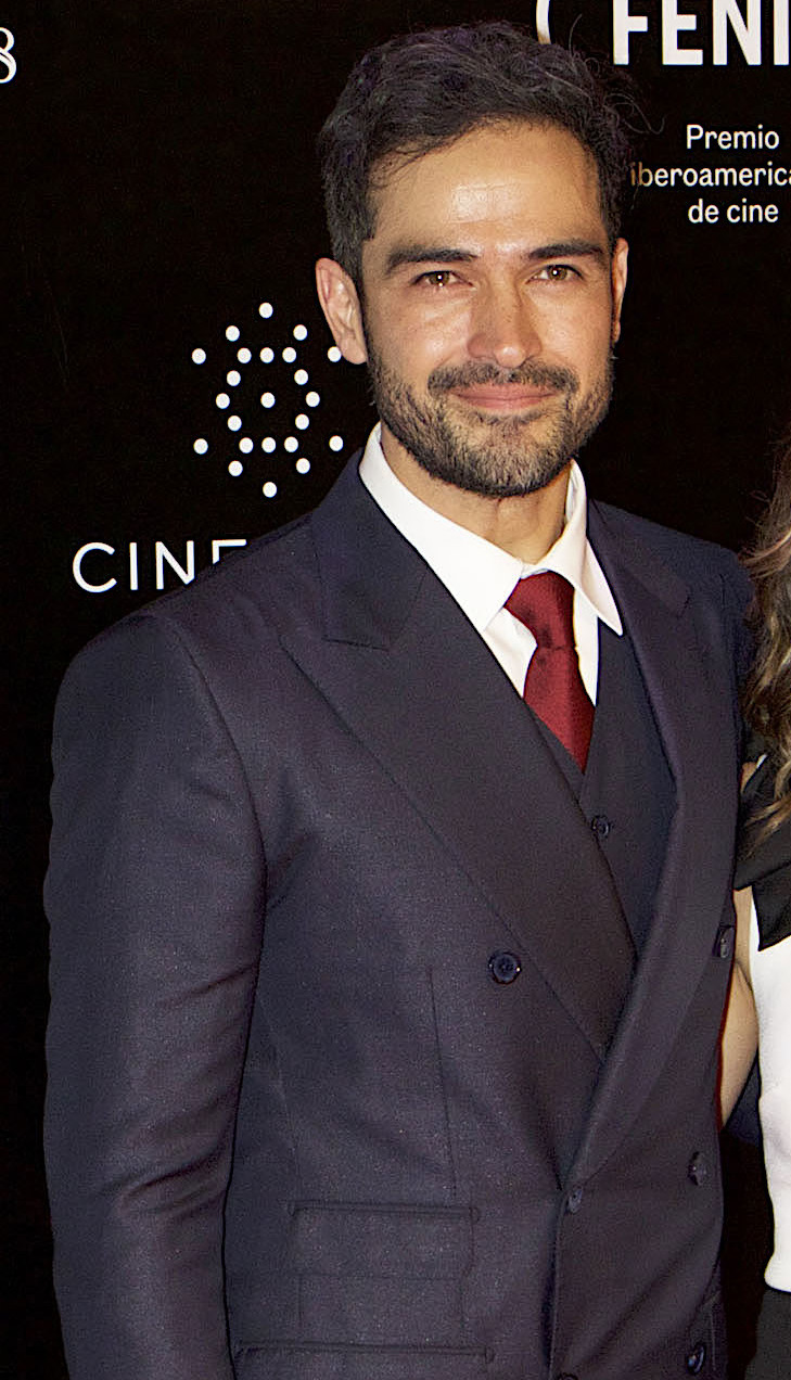 Alfonso Herrera in 2018